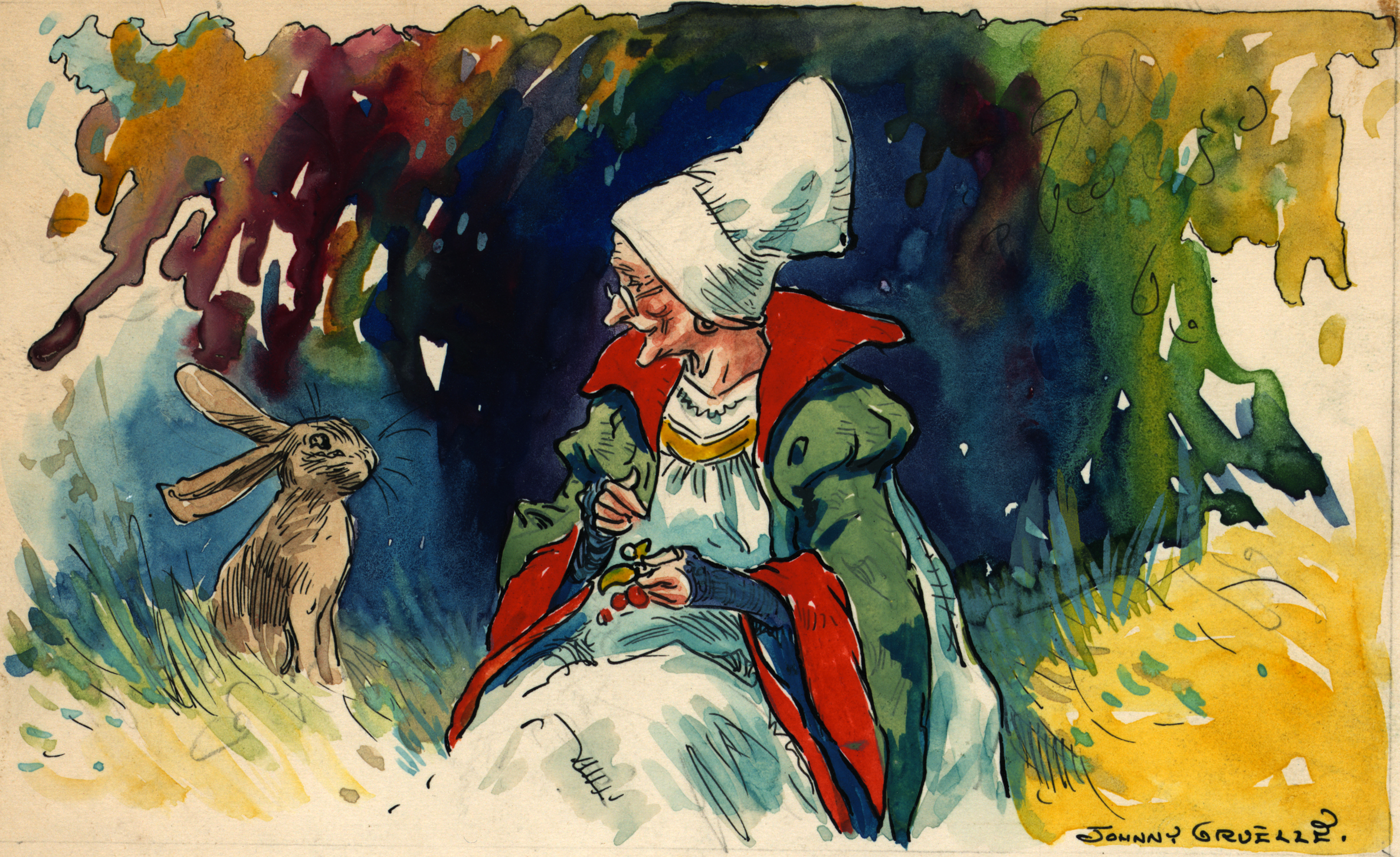 This drawing, showing a rabbit gazing at Sally Migrundy, an old lady in a long white dress and white cap, is an illustration for the story Sally Migrundy, about a good fairy who took in orphaned children. Published in: Friendly fairies by Johnny Gruelle. New York, Chicago [etc.] : P.F. Volland Company, 1919.